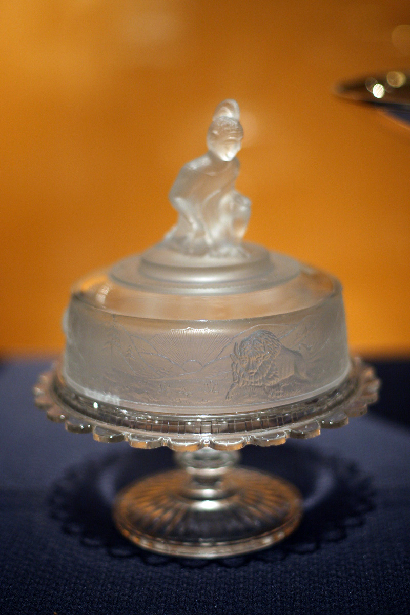 James Gillinder & Sons (1860-ca. 1935). "Westward Ho!" Compote, ca. 1875. Pressed colorless and frosted glass. Brooklyn Museum, Gift of Dr. and Mrs. George Liberman, 1994.162.1a-b.